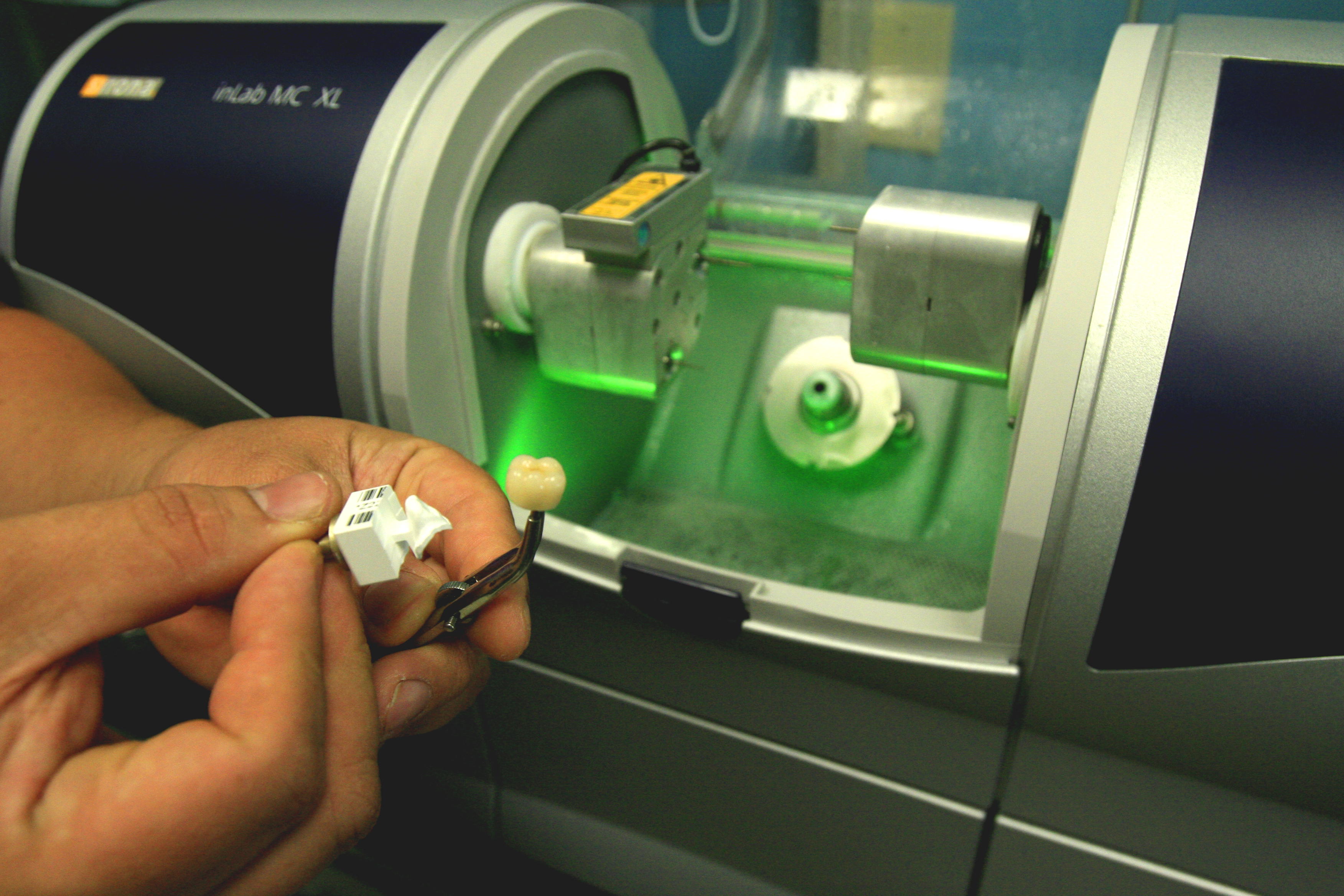 Petty Officer 2nd Class Richard Walker, a lab technician with 2nd Dental Battalion, 2nd Marine Logistics Group, holds up a finalized crown and a crown carved by the Sirona MC XL inLAB, here, April 14. The machine precisely cuts the crowns from a digital image into a block of zirconia (yttria-stabilized zirconia) within a short amount of time, allowing the quick turn around the battalion strives for. (Official U.S. Marine Corps photo by Cpl. Brian Lewis)(RELEASED)